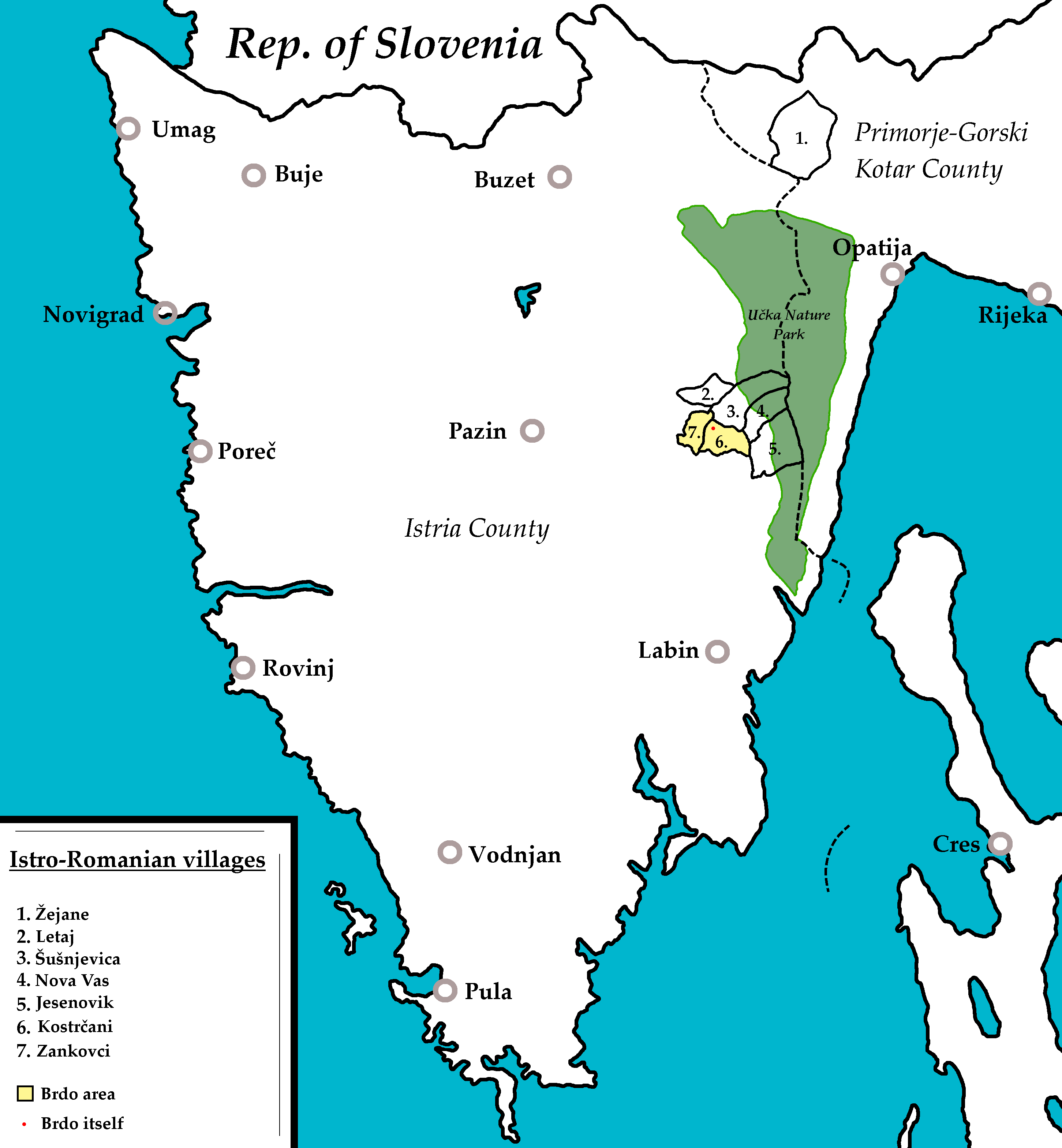 Map showing the villages inhabited by Istro-Romanians in Istria today.